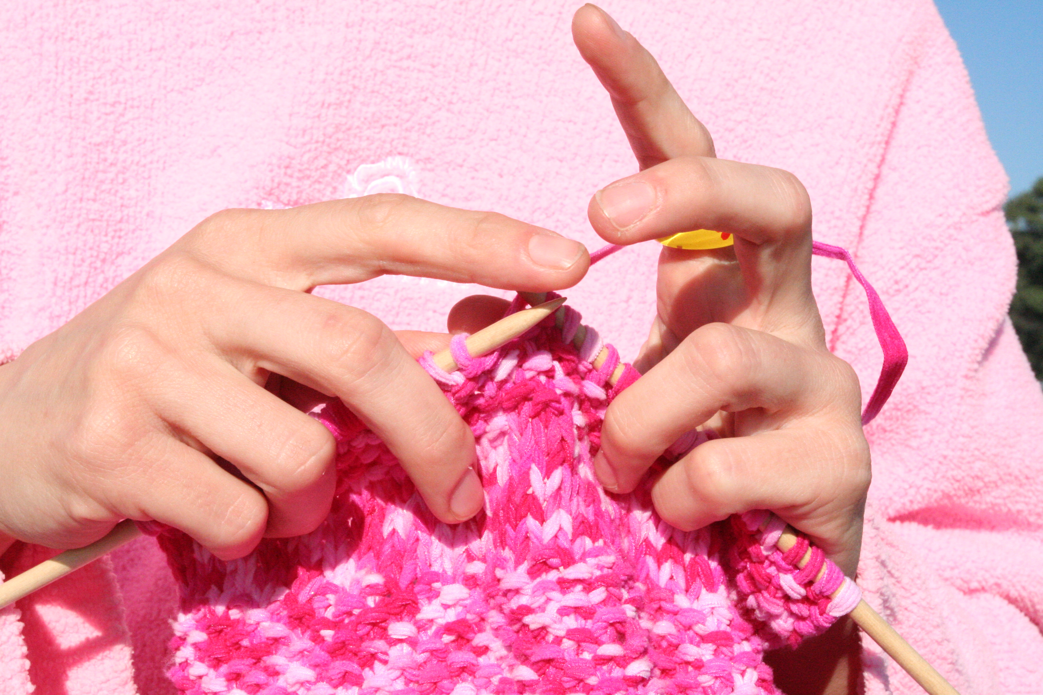 Pink knitting in front of pink sweatshirt. Photo by Johntex.